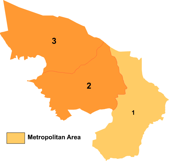 Map of Alxa in Inner Mongolia